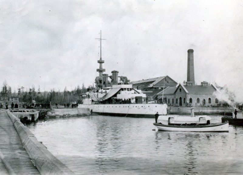 USS Oregon in dry dock at in Bremerton, Washington. The Oregon was a pre-Dreadnought Indiana-class battleship of the United States Navy built by Union Iron Works of San Francisco, California. She was launched 26 October 1893.